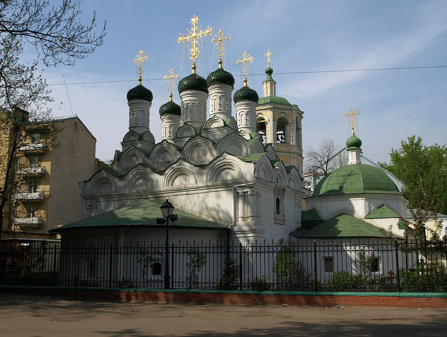 Uspensky Lane, Moscow